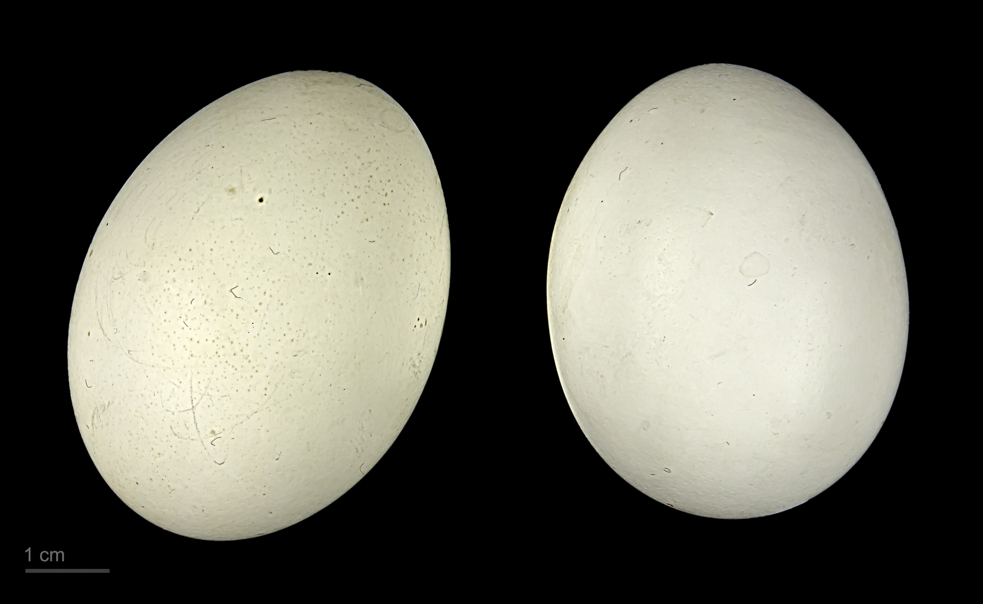 Eggs of fulvous whistling duck Two specimens of the same spawn ; collection of Jacques Perrin de Brichambaut.